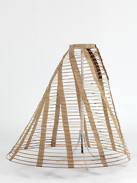 Crinoline, 1860-1870. MoMu Collection T12/1058/O58. Jacoba de Jonge Collection in MoMu - Fashion Museum Province of Antwerp, Photo by Hugo Maertens, Bruges